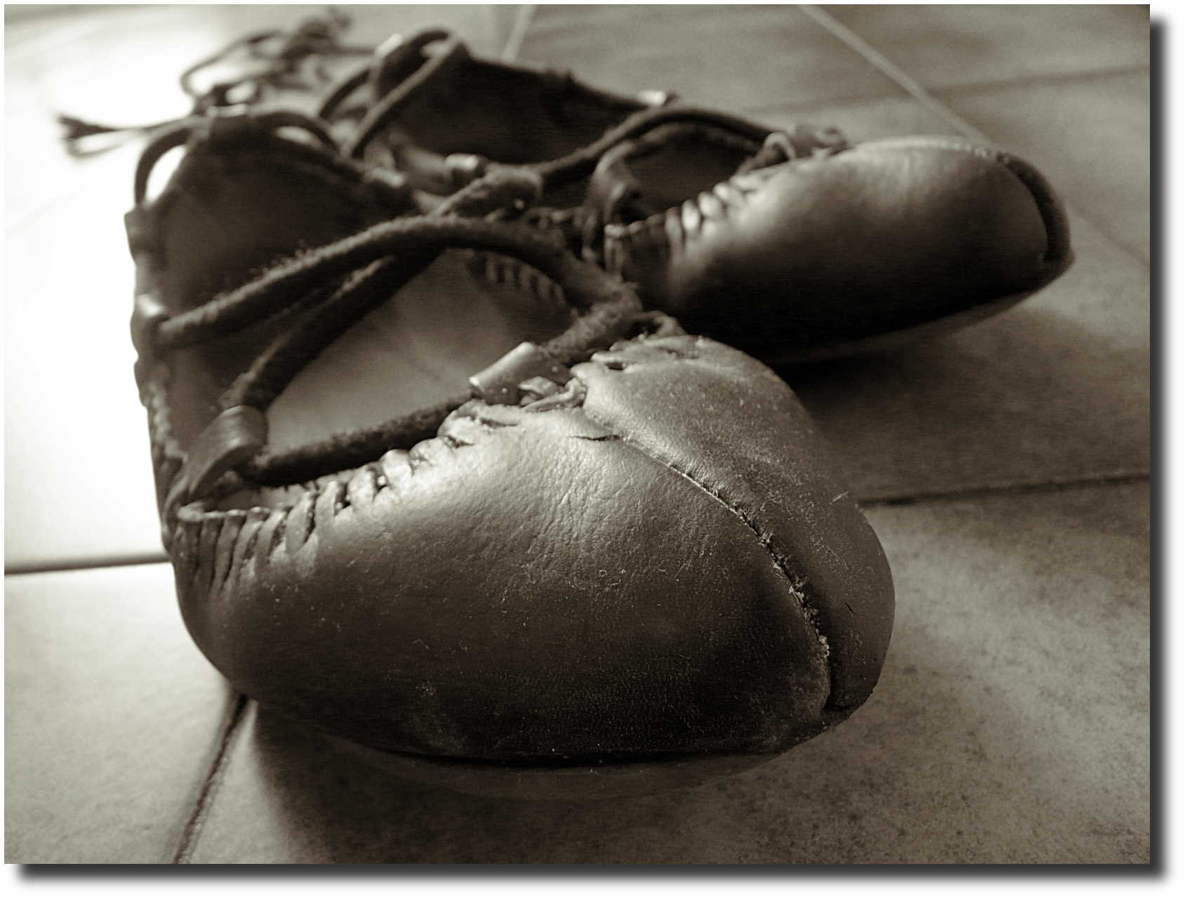 Abarkak